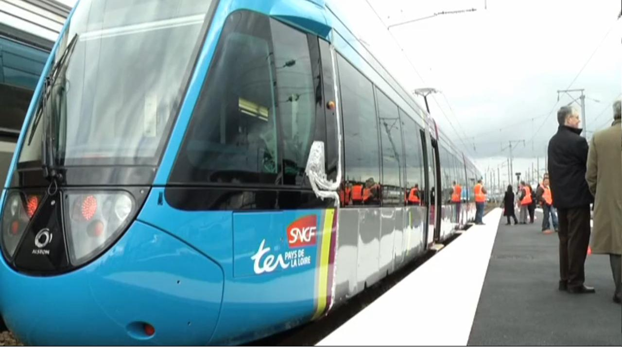 A Citadis Dualis tram-train at Nantes station